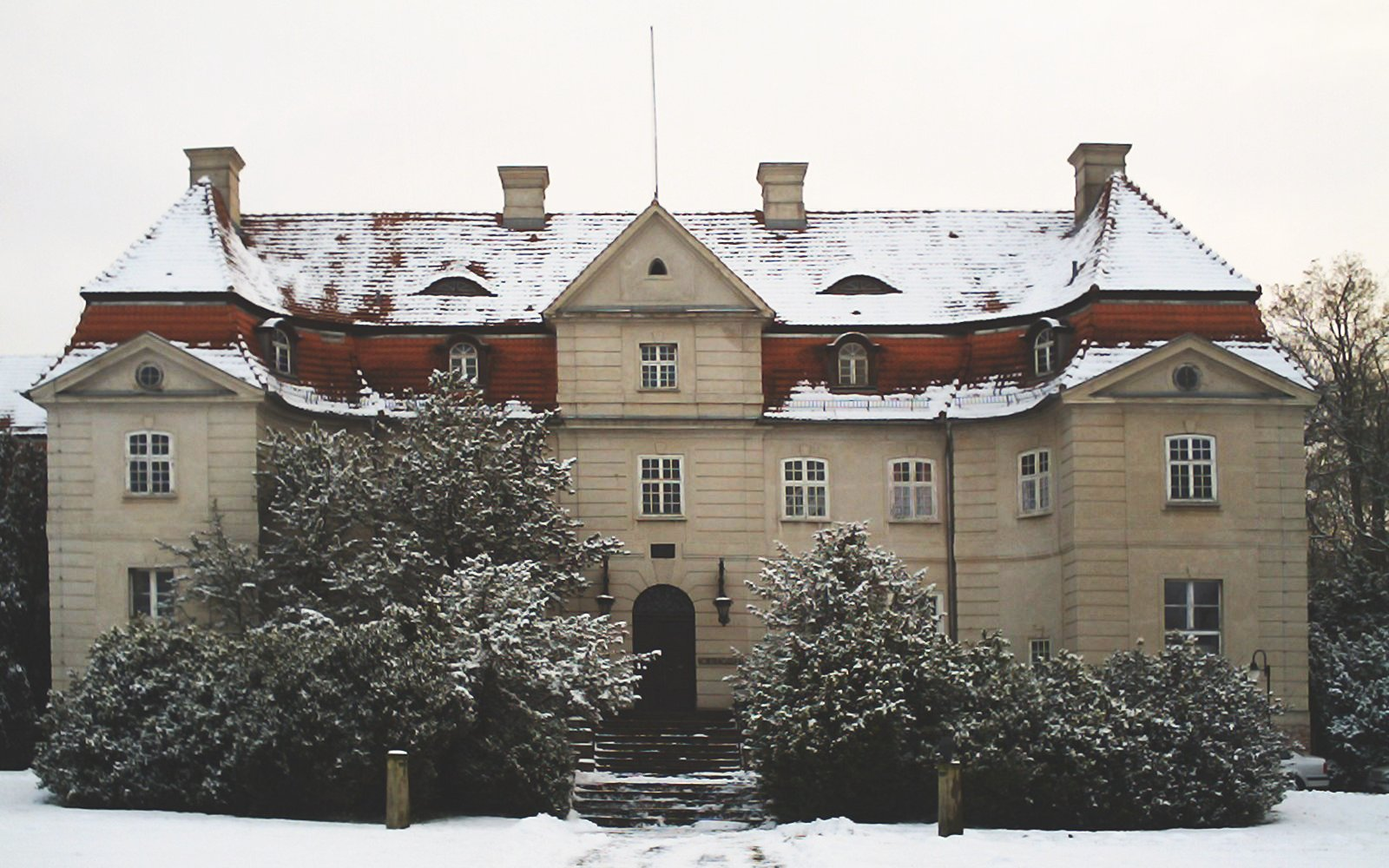 Campus of the Biomedical Research Complex in Karlsburg near Greifswald, the Castle of Karlsburg, the original site of the Central Institute of Diabetes.